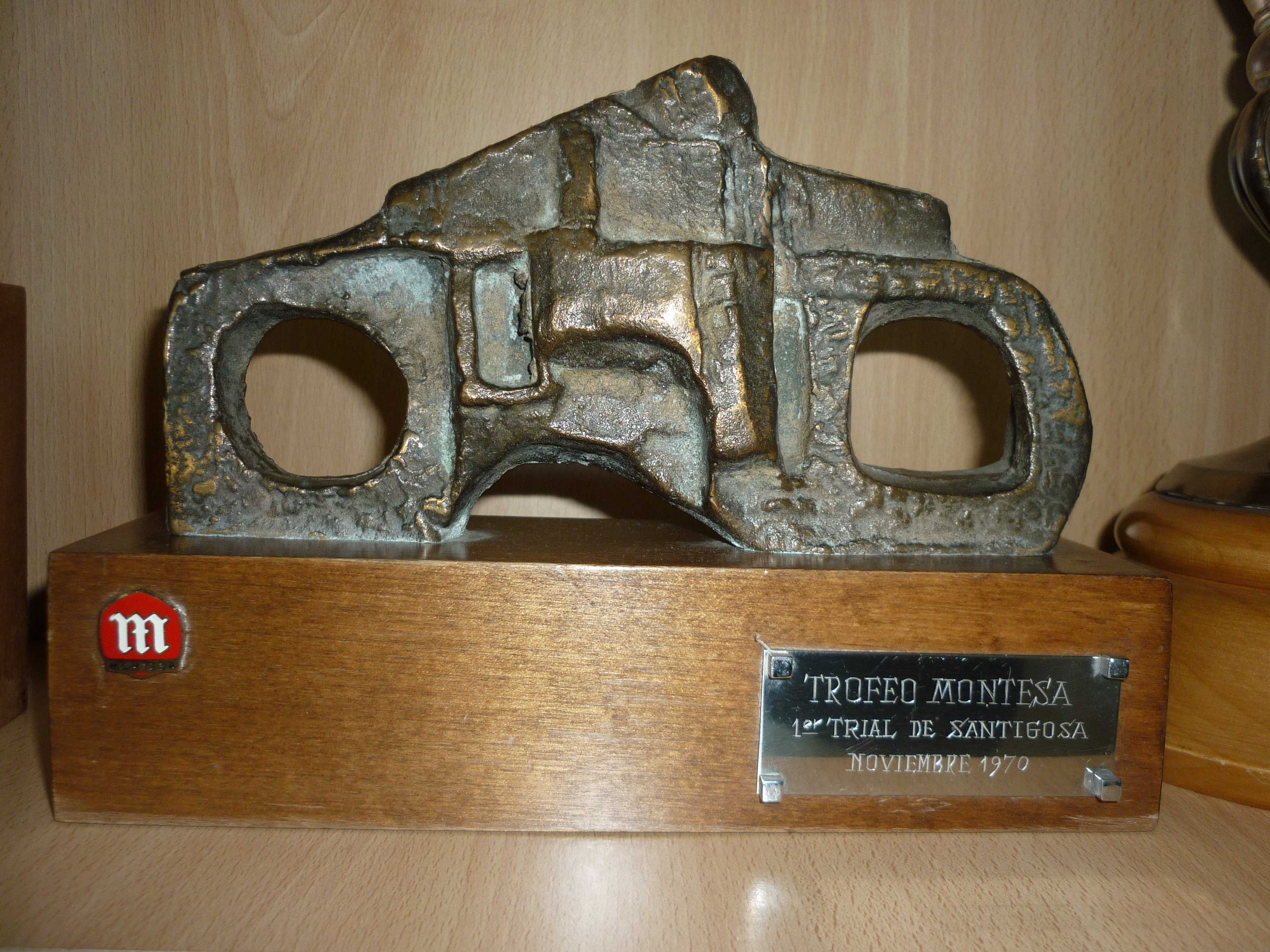 Trial de Santigosa 1970 Montesa trophy. The first Trial of Santigosa, held in November 1970, before the creation of the "Tres Dies de Trial de Santigosa" in 1972.Isern Motorcycle Museum, Mollet del Vallès (Catalonia).